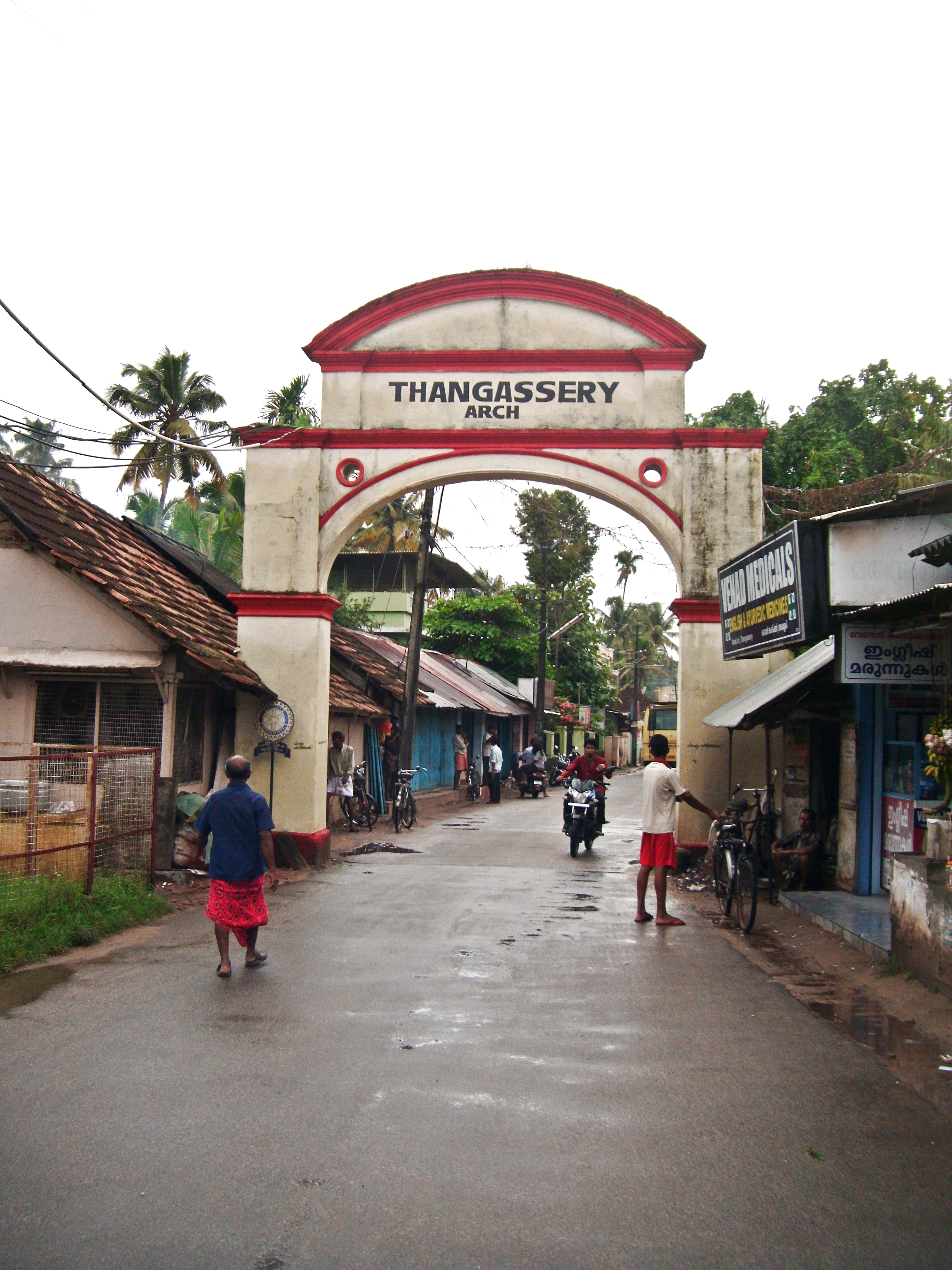 Kollam, Kerala, India; Thangasseri Gate